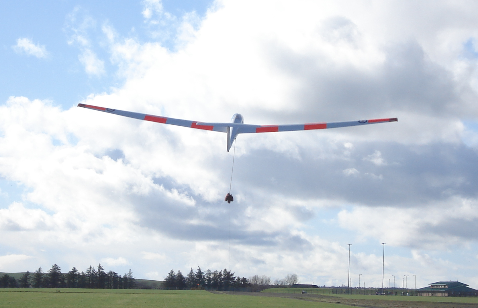 Picture taking at 662 vgs